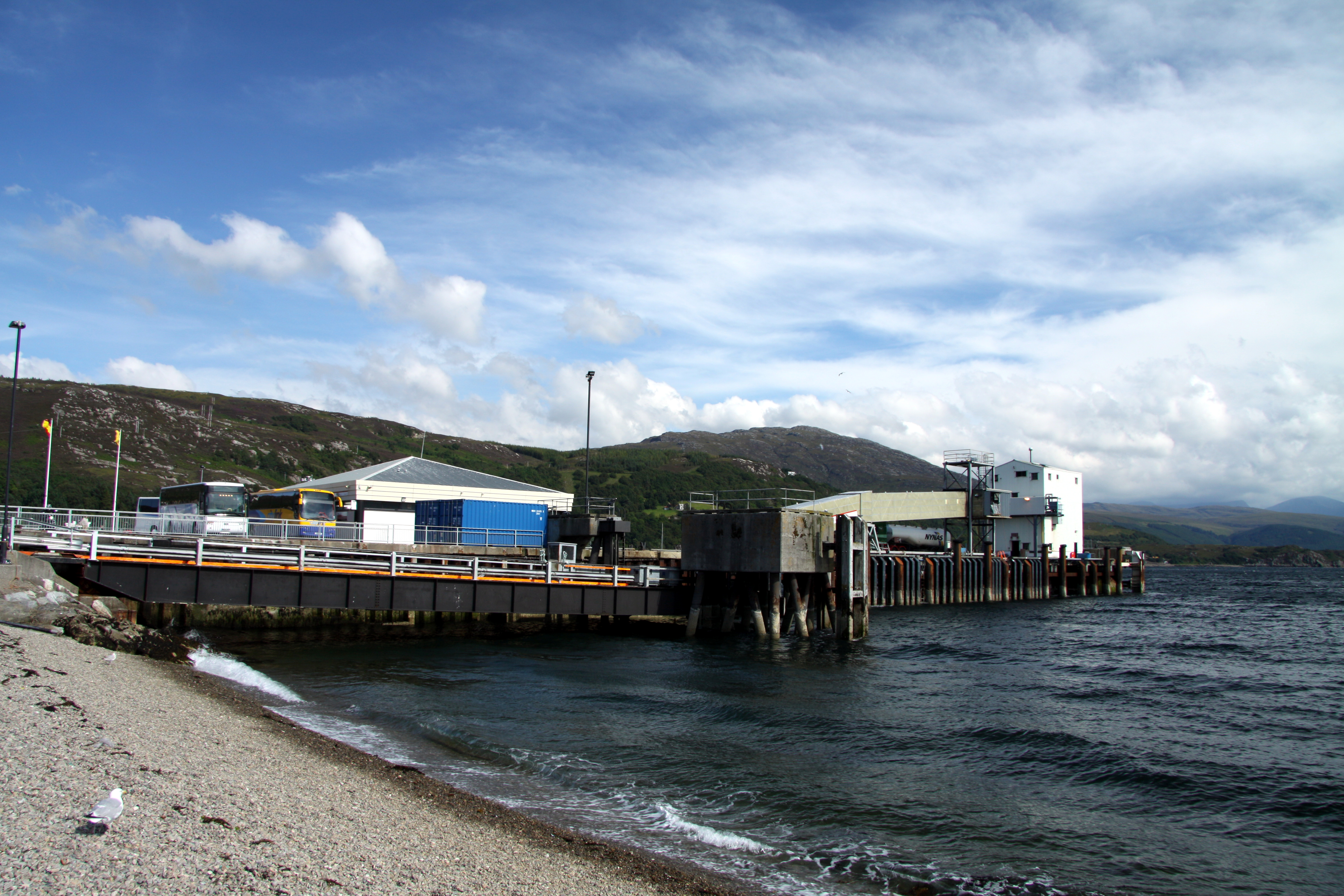 Ullapool Ferry Terminal in Ullapool, is a small town of around 1,300 inhabitants in Ross and Cromarty, Highland, Scotland.